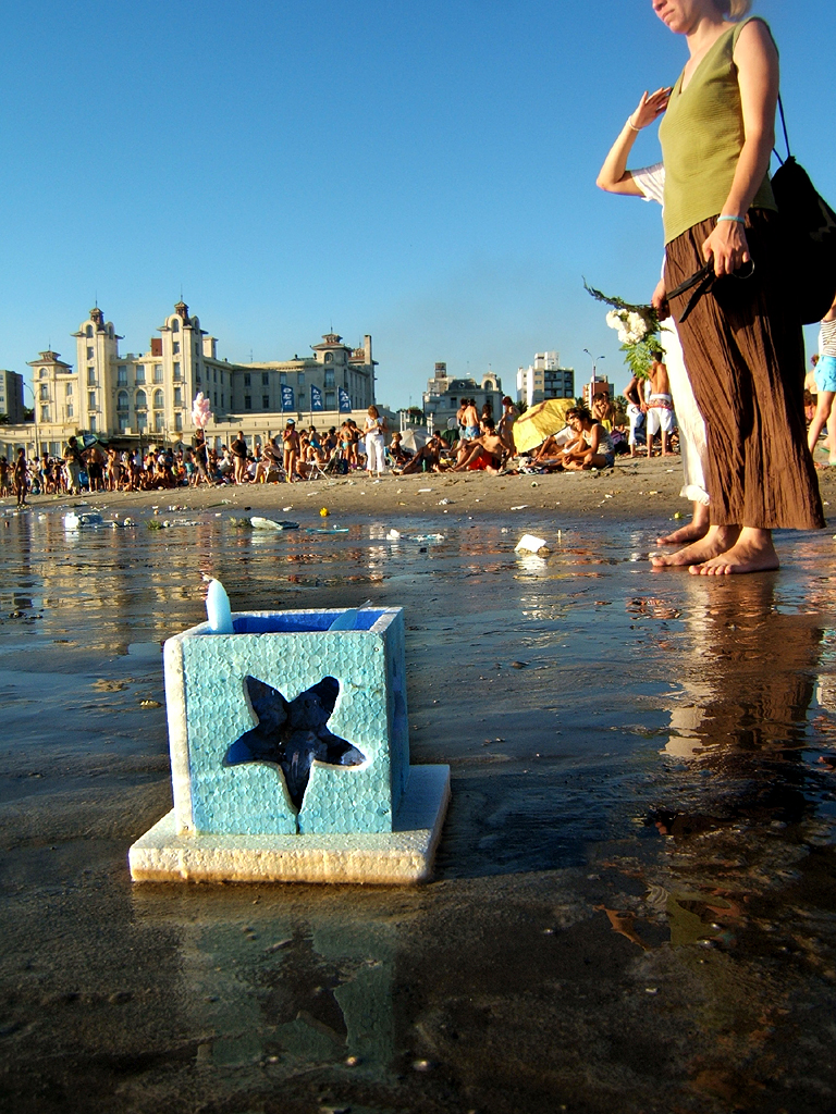 For Yemanja, goddess of the ocean.